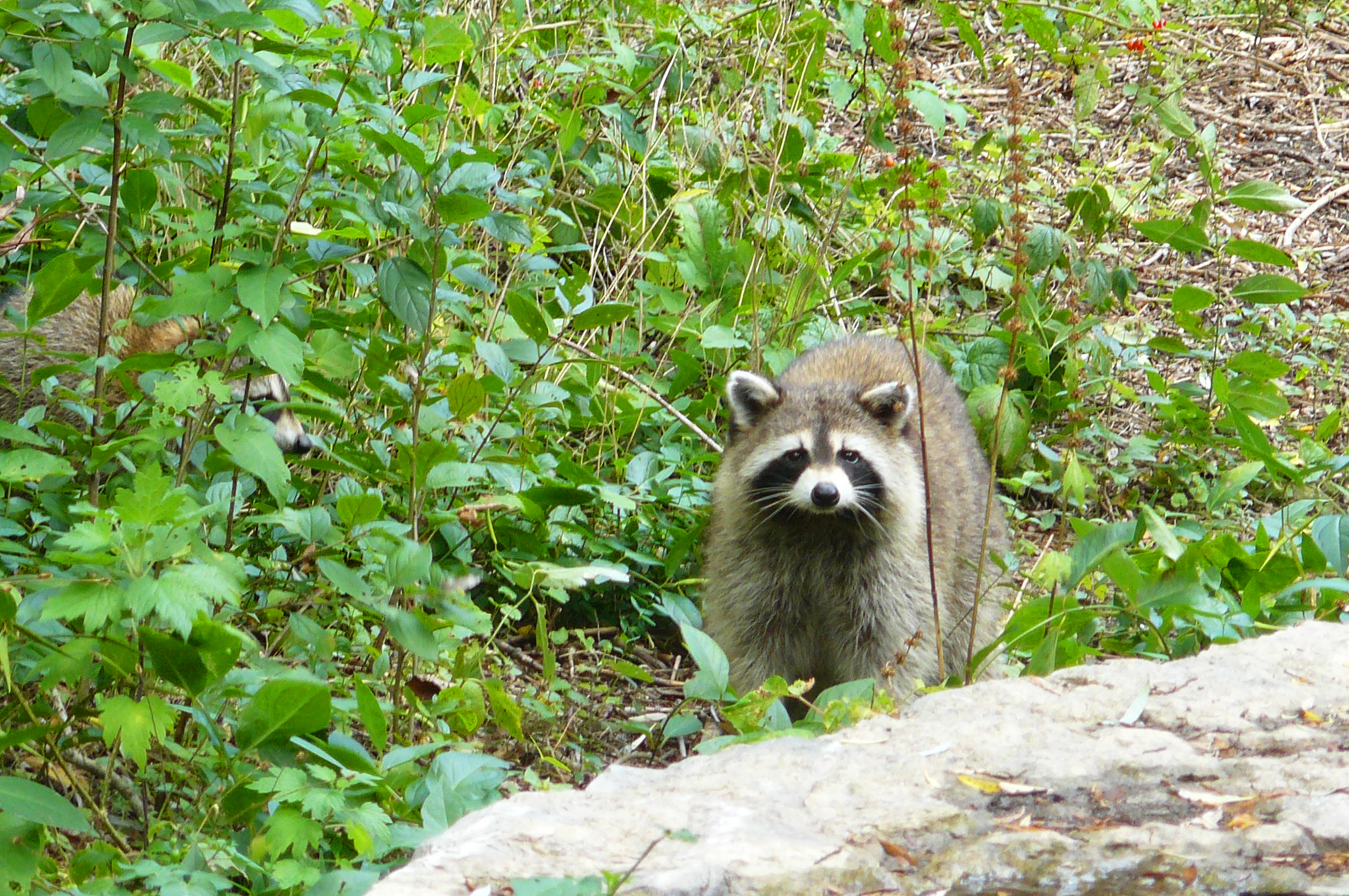 Ontario Science Center. Mapache.